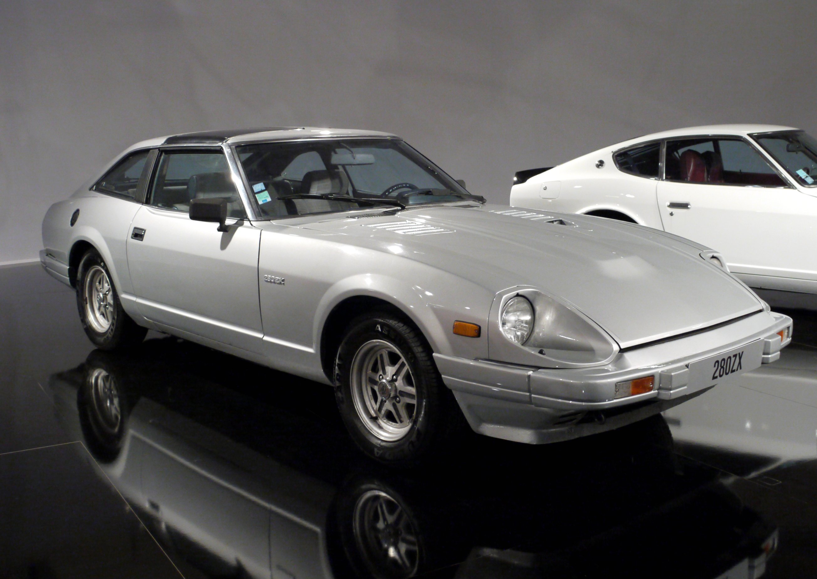 1978-1984 Nissan 280ZX. Spec.: - 2800 cc - 180 bhp